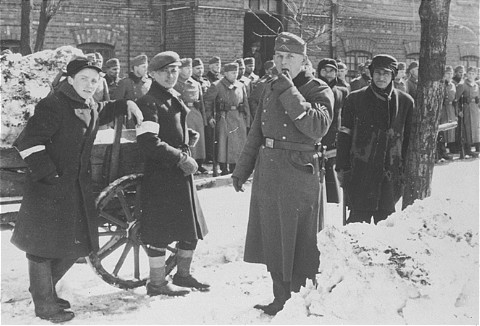 Young Jewish men who have been assigned work clearing snow stand in front of a formation of German troops, Częstochowa Ghetto in occupied Poland (circa 1939-1943).